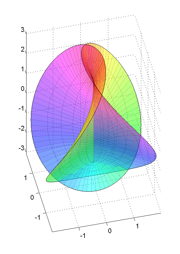 Semi-transparent plot of the Henneberg minimal surface, with one parameter determining colour.